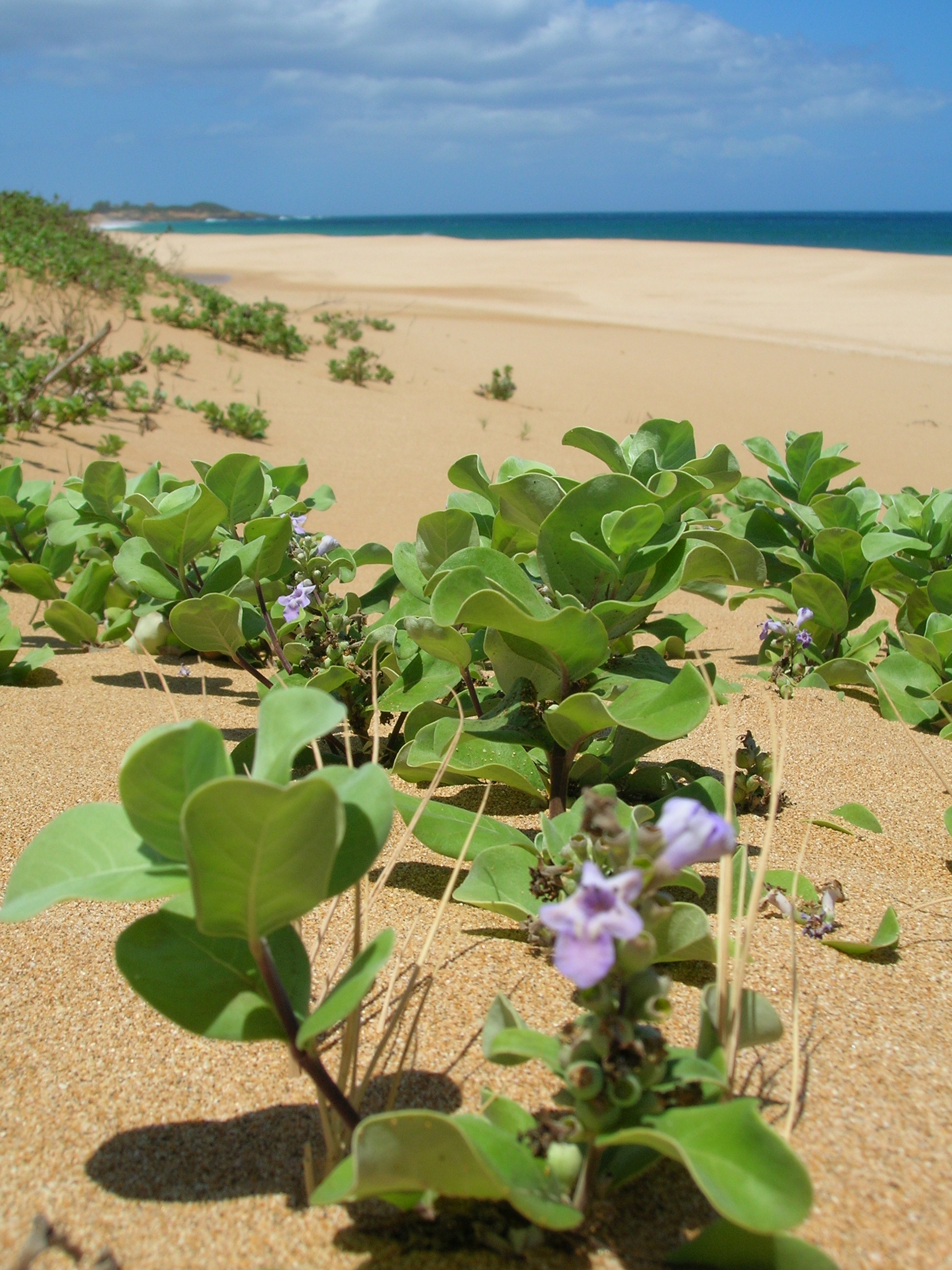 Vitex rotundifolia (flowers). Location: Molokai, Papohaku